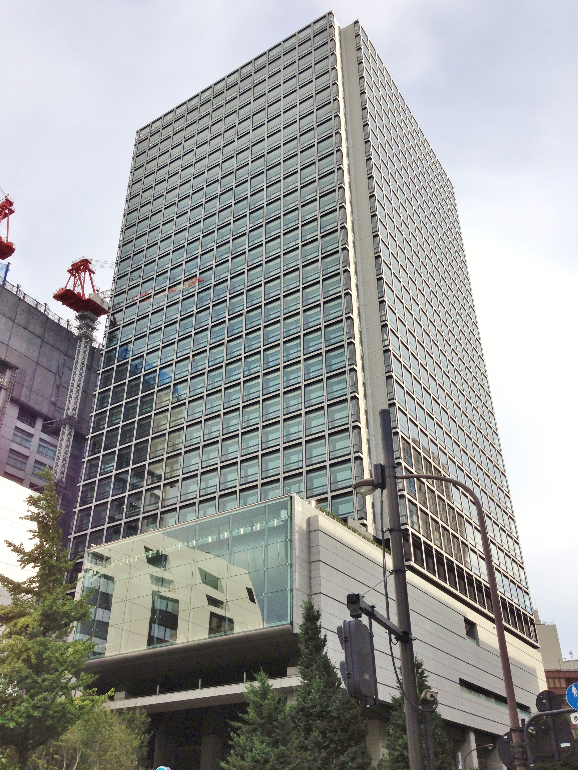 Iino Building in Chiyoda-ku, Tokyo